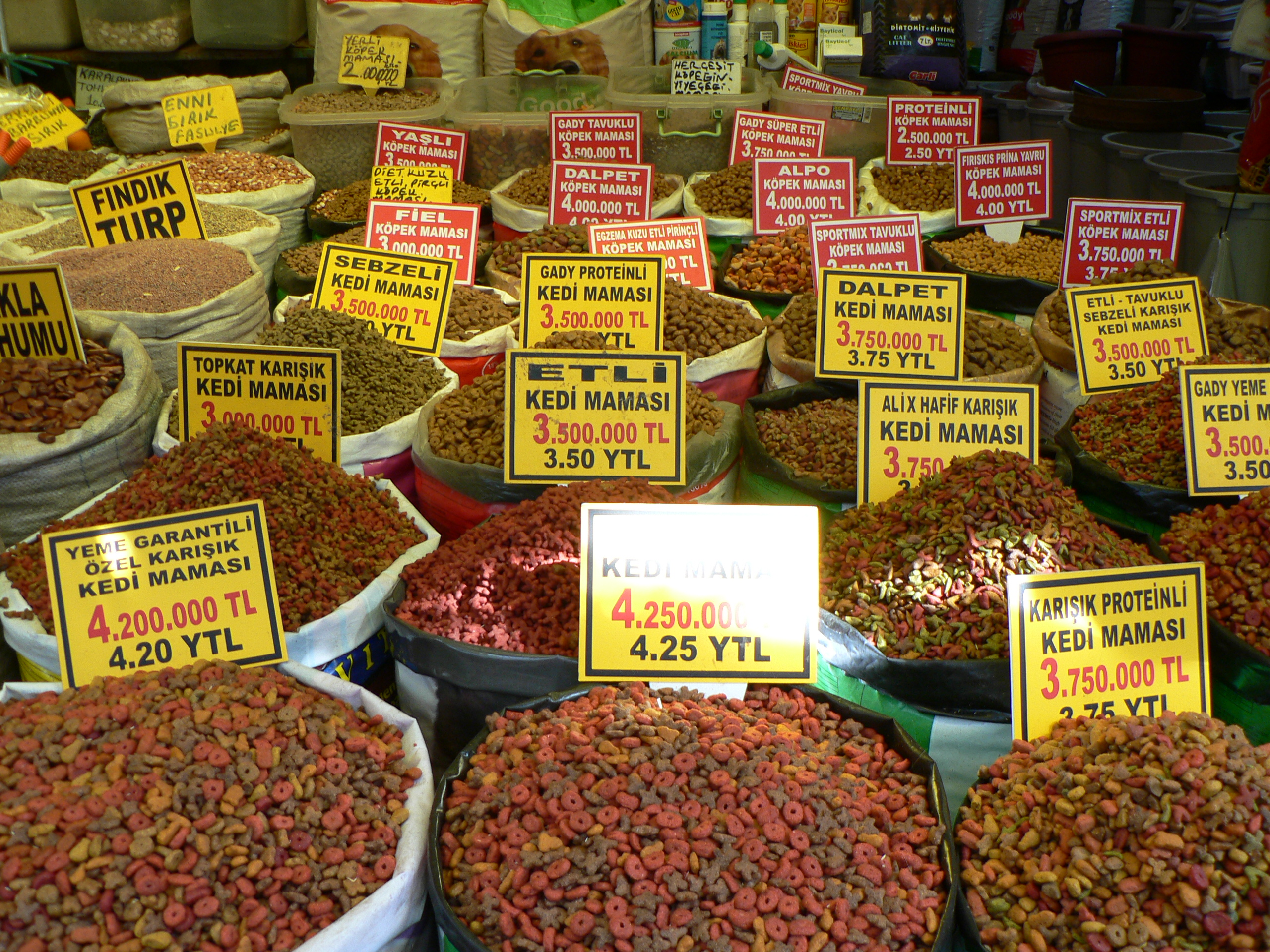 cat food, animal market, Istanbul